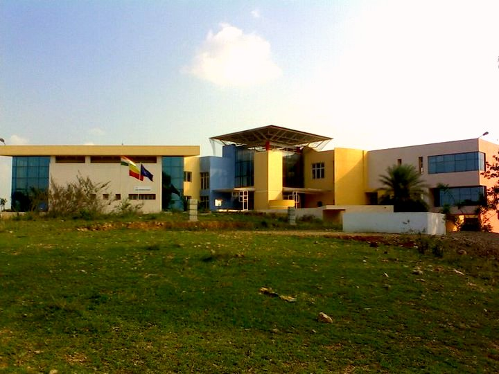 A far view of the AIT admin block